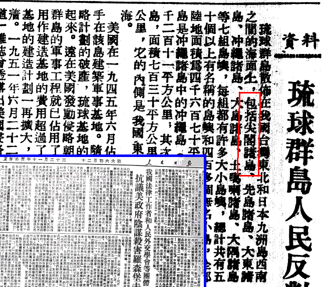 (This was a news article on current events at the time of publication.) Article from the People's Daily, 1953 The first sentence reads (in Chinese) "the Ryukyu Islands are located northeast of our Taiwan Islands... including Senkaku Shoto." The image comes from an unnamed user from [1]. (Excerpt, provisional translation by Ministry of Foreign Affairs of Japan) "Battle of people in the Ryukyu Islands against the U.S. occupation The Ryukyu Islands lie scattered on the sea between the Northeast of Taiwan of our State and the Southwest of Kyushu, Japan. They consist of 7 groups of islands; the Senkaku Islands, the Sakishima Islands, the Daito Islands, the Okinawa Islands, the Oshima Islands, the Tokara Islands and the Osumi Islands. Each of them consists of a lot of small and large islands and there are more than 50 islands with names and about 400 islands without names. Overall they cover 4,670 square kilometers. The largest of them is the Okinawa Island in the Okinawa Islands, which covers 1,211 square kilometers. The second largest is the Amami Oshima Island in the Oshima Islands, which covers 730 square kilometers. The Ryukyu Islands stretch over 1,000 kilometers, inside of which is our East China Sea (the East Sea in Chinese) and outside of which is the high seas of the Pacific Ocean."